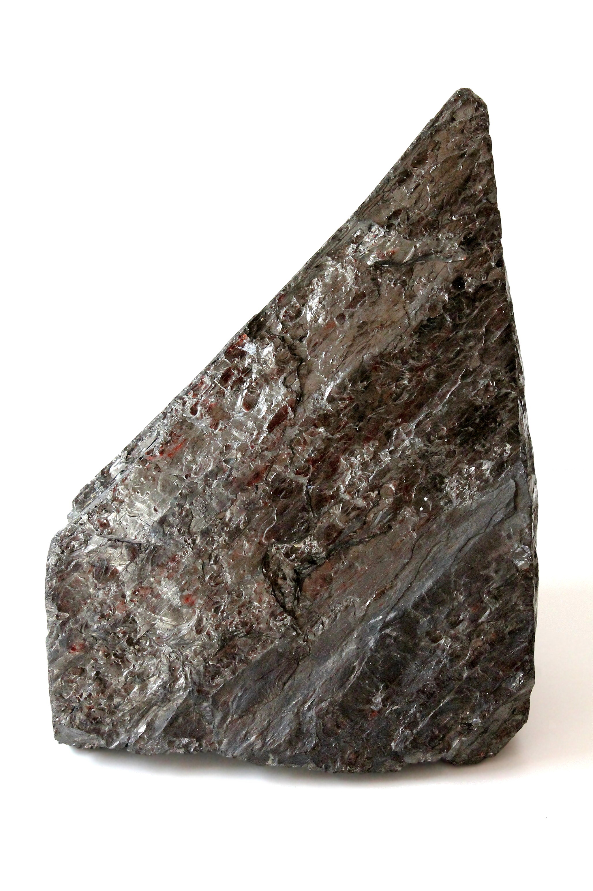 A large chunk of anthracite coal measuring roughly 10 inches by 7 inches by 5 inches